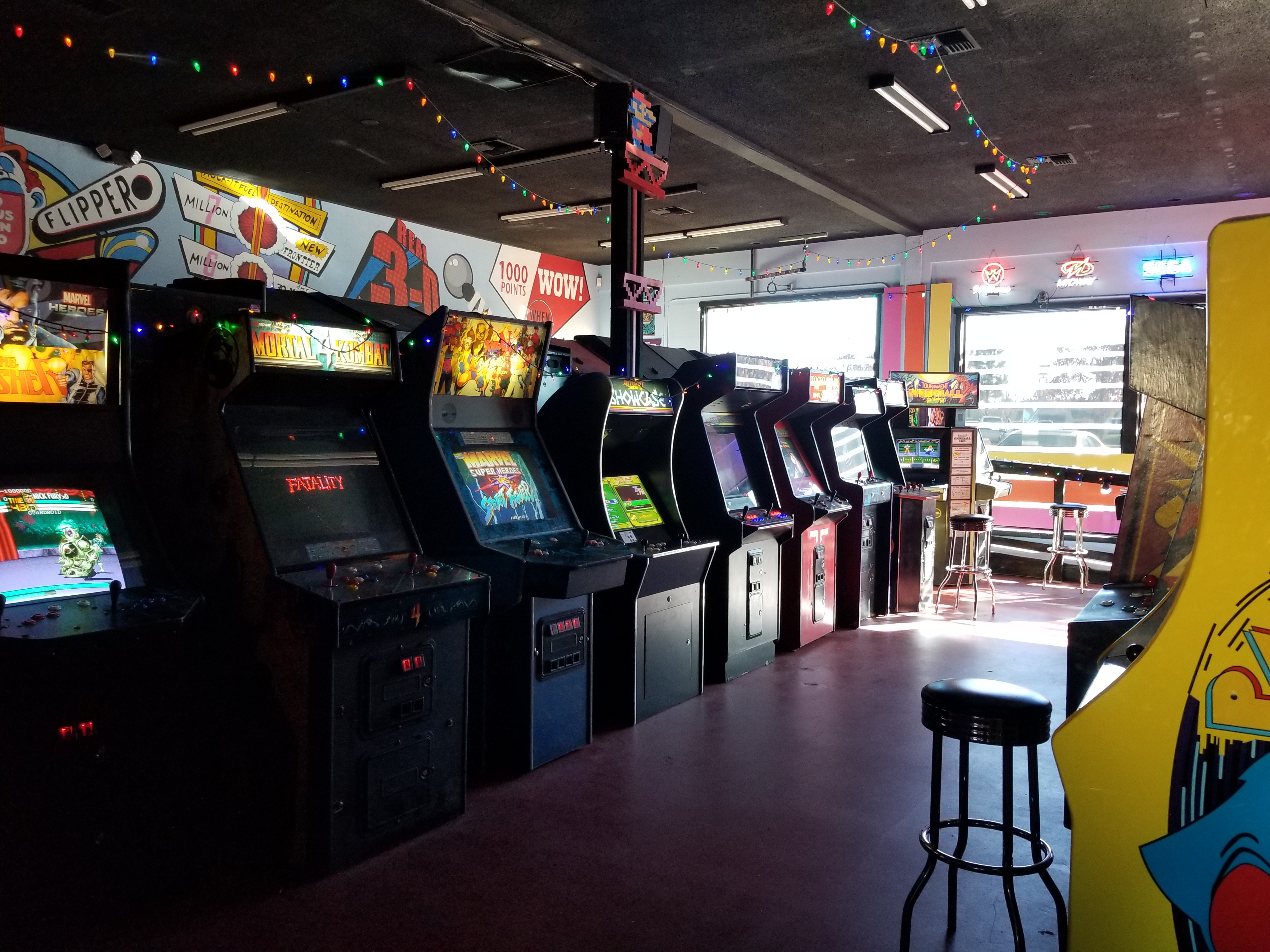 A line of arcade machines. Retrovolt Arcade, Calimesa, CA in 2017